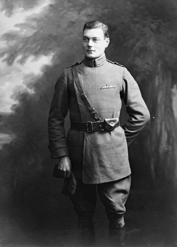 12 Squadron, Royal Flying Corps No 12 Squadron, Royal Flying Corps, was formed at Netheravon on 14 February 1915, out of a flight of No 1 Squadron. The original intention was that one flight should have Avro 504s and the other, Moranes. The Avros arrived, but by April of that year, the Squadron was completely equipped with BE 2cs, using the Avros only for training. Work up for France commenced and on 6 September, 12 Squadron arrived at St Omer to become Headquarters squadron for long-range reconnaissance. It flew its first operation, a photographic reconnaissance mission of the Hanbourdin-Seclin-Lille-Roubaix area, on 9 September. Three days later, the squadron scored its first 'kill' when, flying an 80 HP Gnome-engined Bristol Scout, Captain Strange, C Flight Commander, drove down a German aircraft over Comines. Although never intended for armour, as the war escalated the BE2c carried a variety of weapons and soon found a role as a light-medium bomber. Most of the two-seat aircraft carried a single mounted Lewis Gun for the observer in the front cockpit mounted on pipes designed by Capt. L.A Strange. These became known as "Strange Mounts" and were often in place in different locations. Lieutenant-Colonel L. A. Strange, officer commanding 80th Wing, Royal Air Force author of Recollections of an Airman 1933 Faces of the First World War Find out more about this First World War Centenary project at This image is from IWM Collections. The Museum released this image on a custom licence - IWM Non-Commercial license. However where the photograph has no known author, these are public domain under the 70 rule and where they were owned by the Ministry of Information, any other government department or agency, taken by a member of the military during their service or by a photographer commissioned by the services, these are now out of copyright restriction.